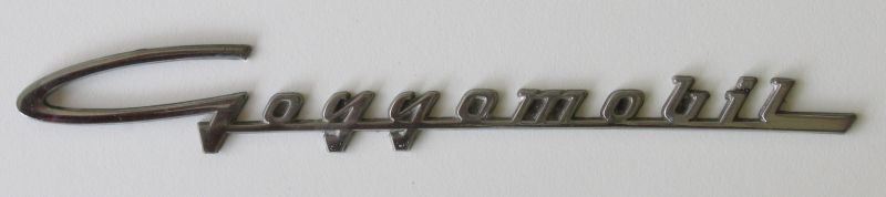 Logotype on the front fenders of a Goggomobil T 250.